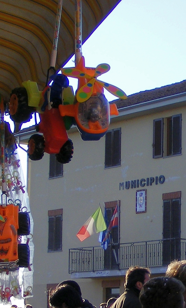 Roatto (AT, Italy): town hall